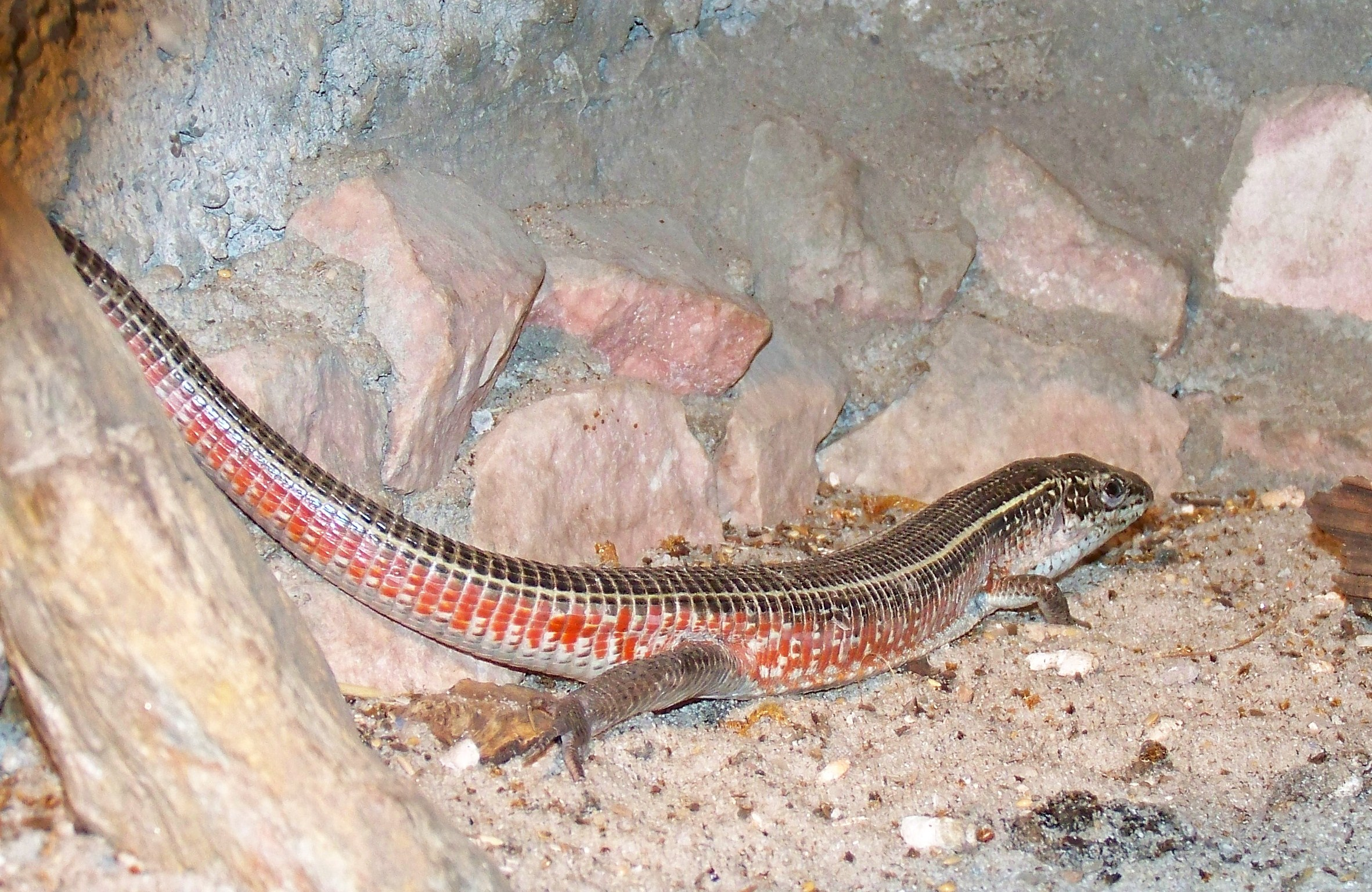 Yellow-throated Plated Lizard - male